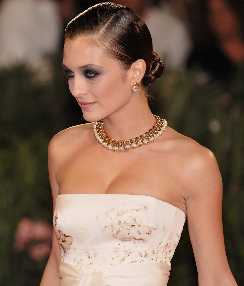 Actress Carolina Crescentini attends the 'A Single Man' premiere at the Sala Grande during the 66th Venice Film Festival